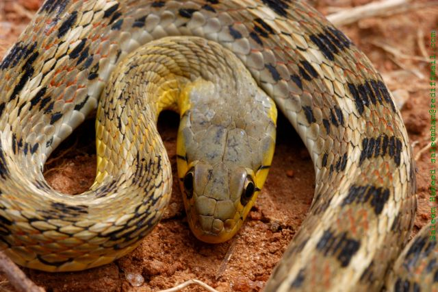 Amphiesma stolata buff striped keelback snake, India